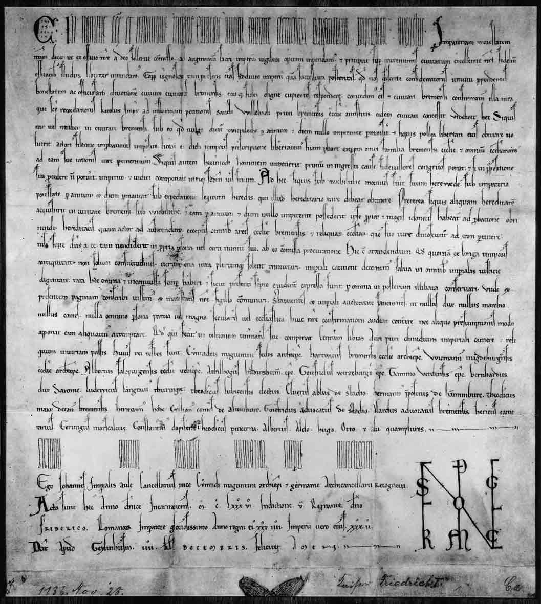 The Gelnhauser Privileg or Barbarossaprivileg in which emperor Frederick I Barbarossa granted the city of Bremen fundamental rights in the year 1186.